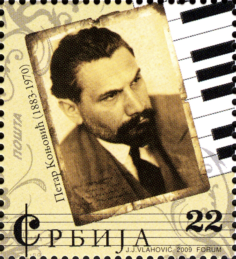 Great Personalities of Serbian Classical Music - Petar Konjovic (1883-1970)